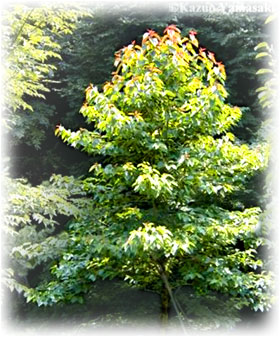 Picture of a Camptotheca acuminata tree.